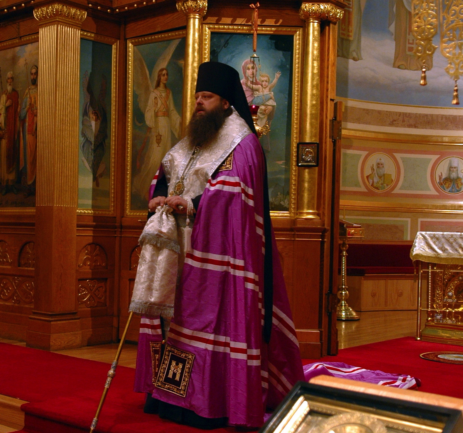 Bishop Mercurius of Zaraisk, administrator of the Patriarchal Parishes in the United States, rector of Saint Nicholas Russian Orthodox Cathedral (New York) in 2000-2009